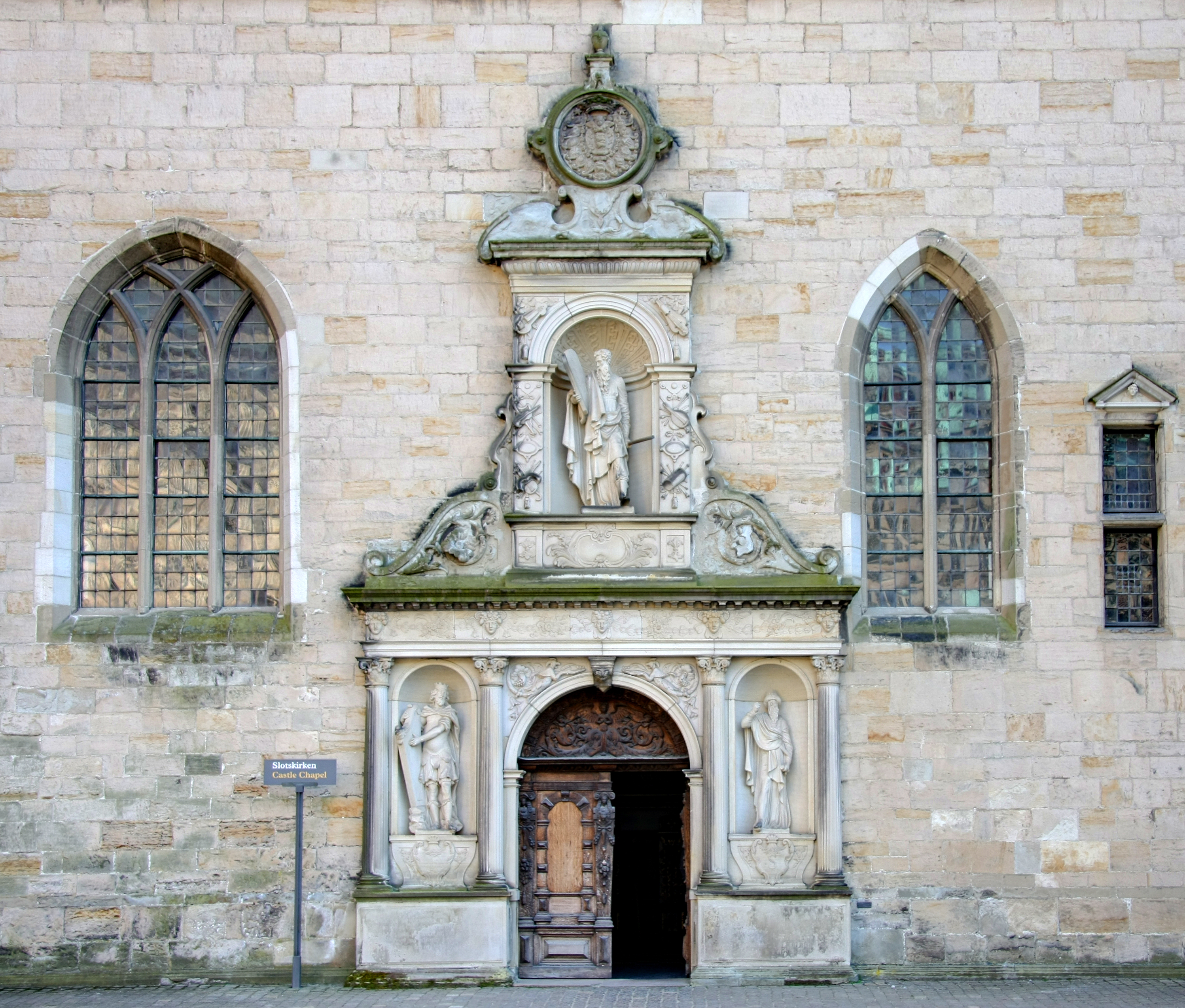 Entrance to the castle church at Kronborg Castle in Helsingør, Denmark